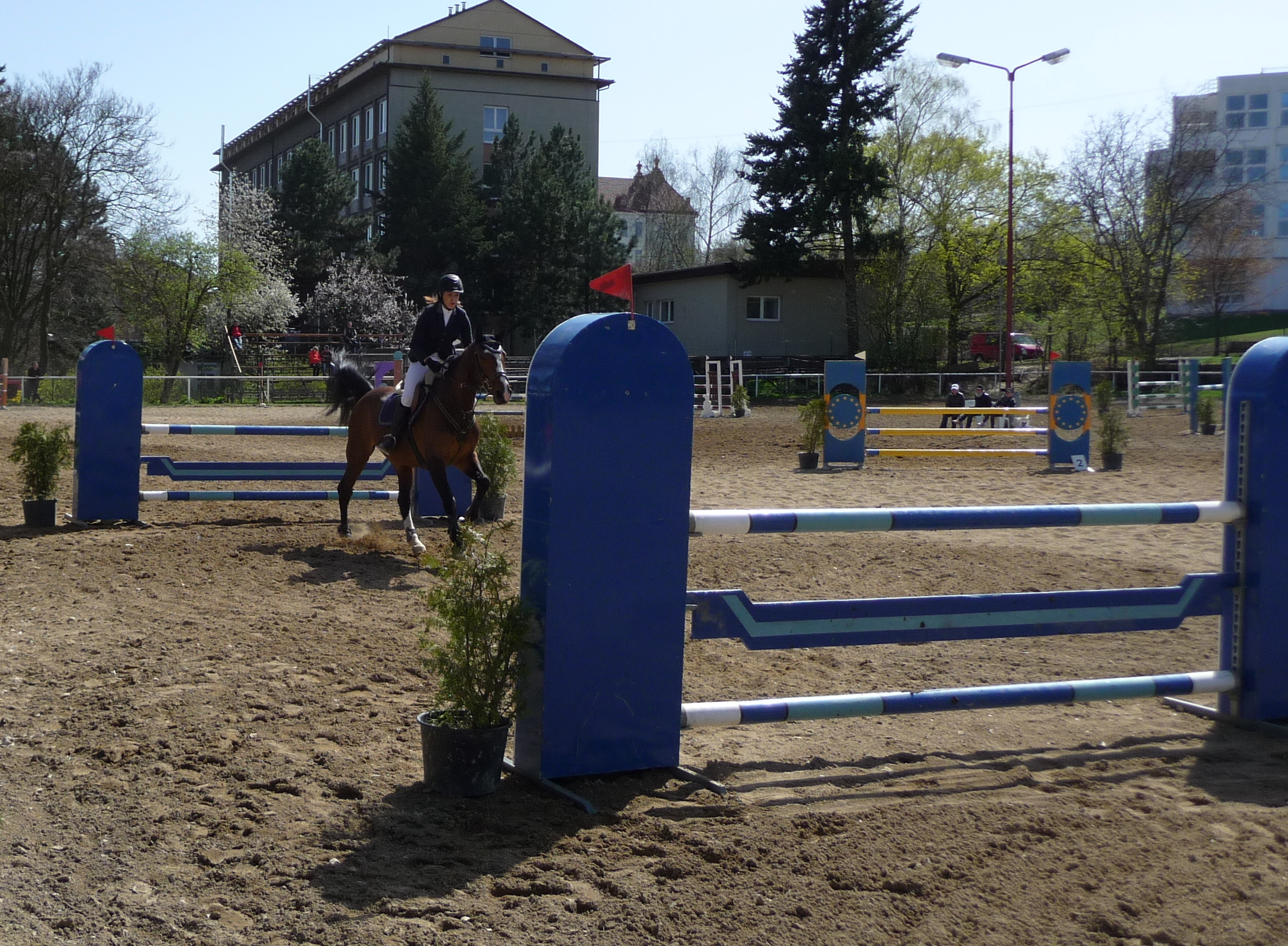 Show jumping Brno Veveří, class old L* -10-5-3-2◄►+2+3+5+10